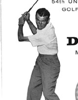 Living with a handicap from a painful, weak arm Ed Furgol spent his childhood teased. Abuse continued once he began to golf, even after scorn and ridicule Ed never gave up practicing. His belief and confidence willed him to win a US Open Golf Title in 1954.